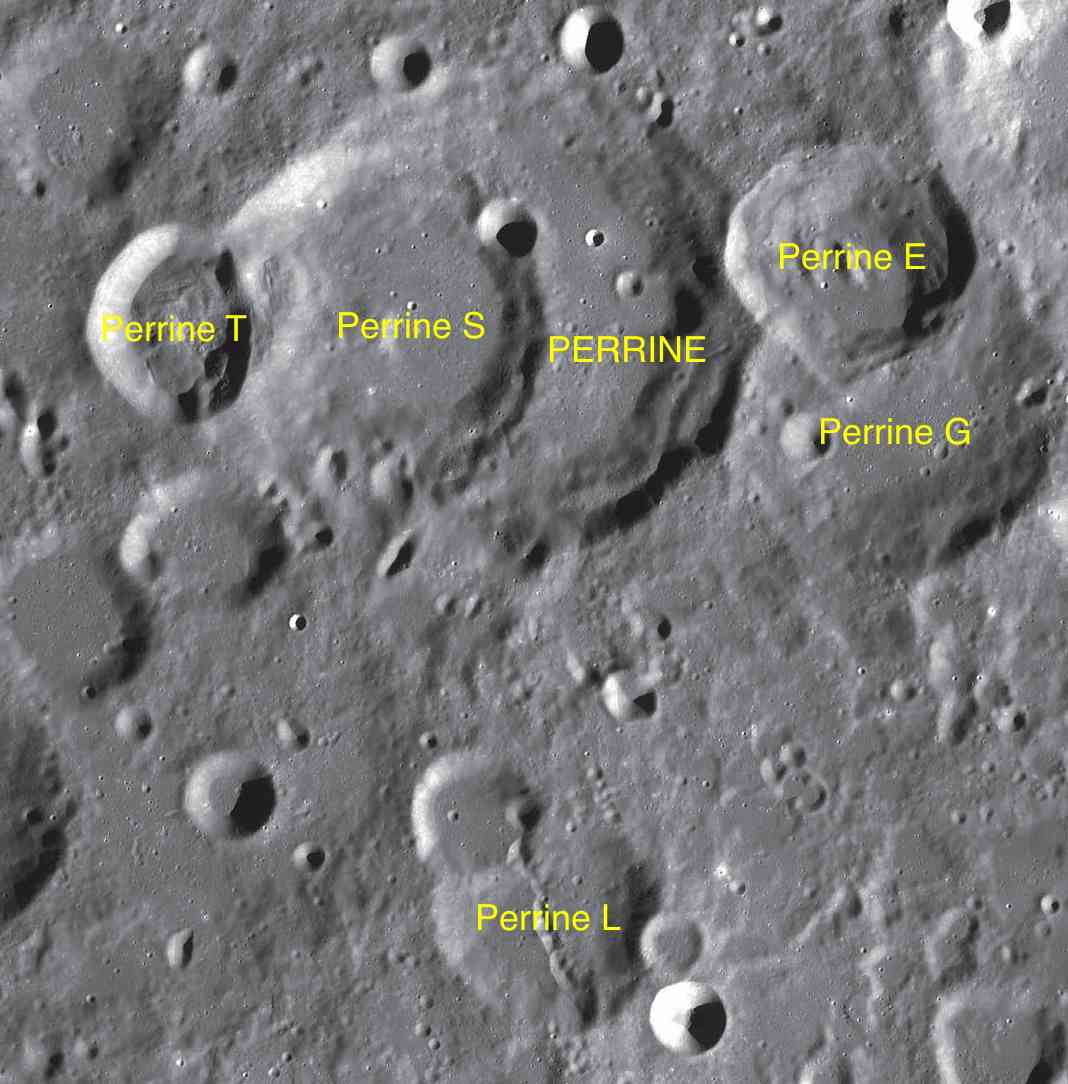 Part of the chart LAC-35 used for the presentation.